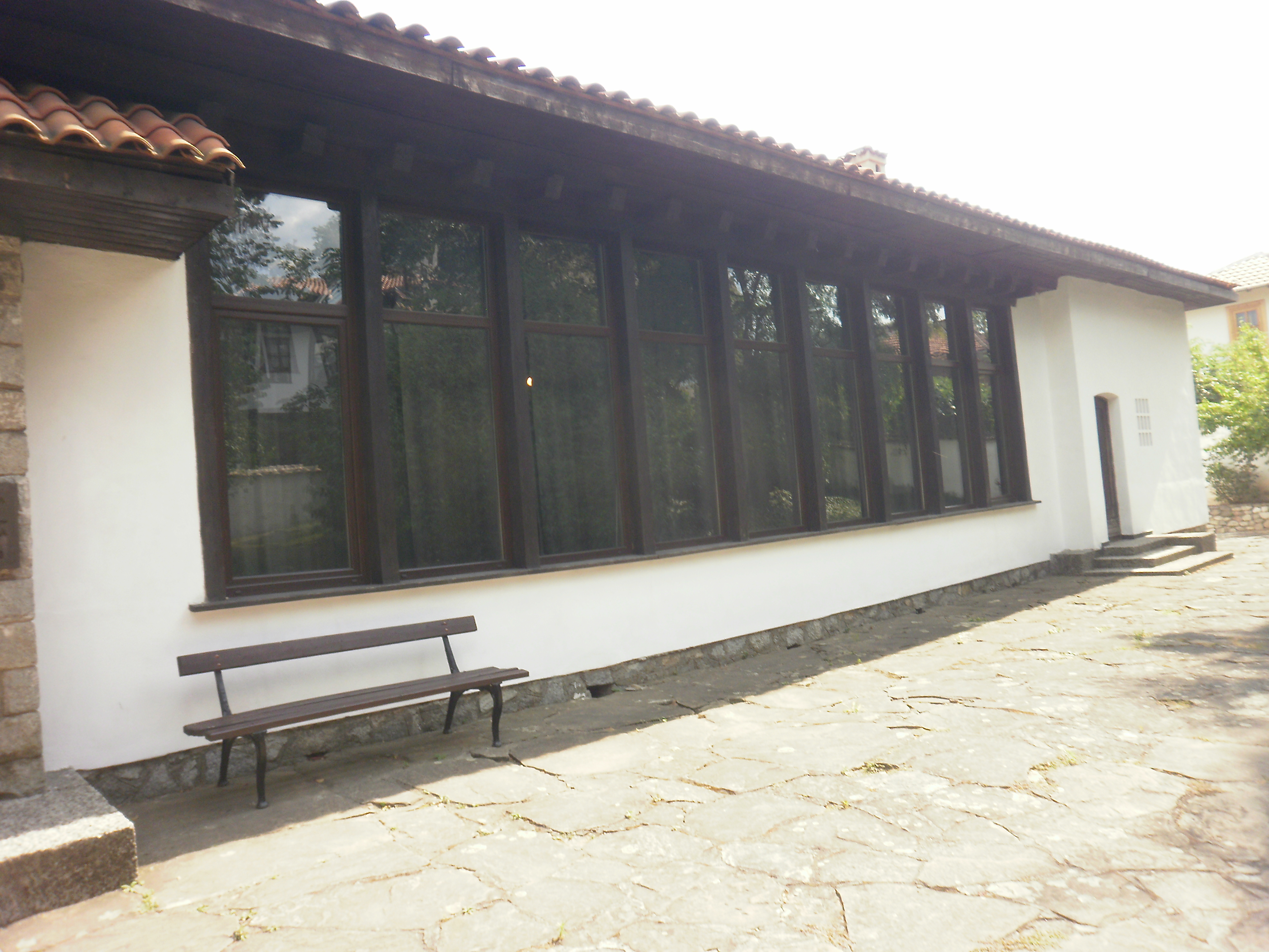 Vasil Levski Museum, Karlovo, Bulgaria.